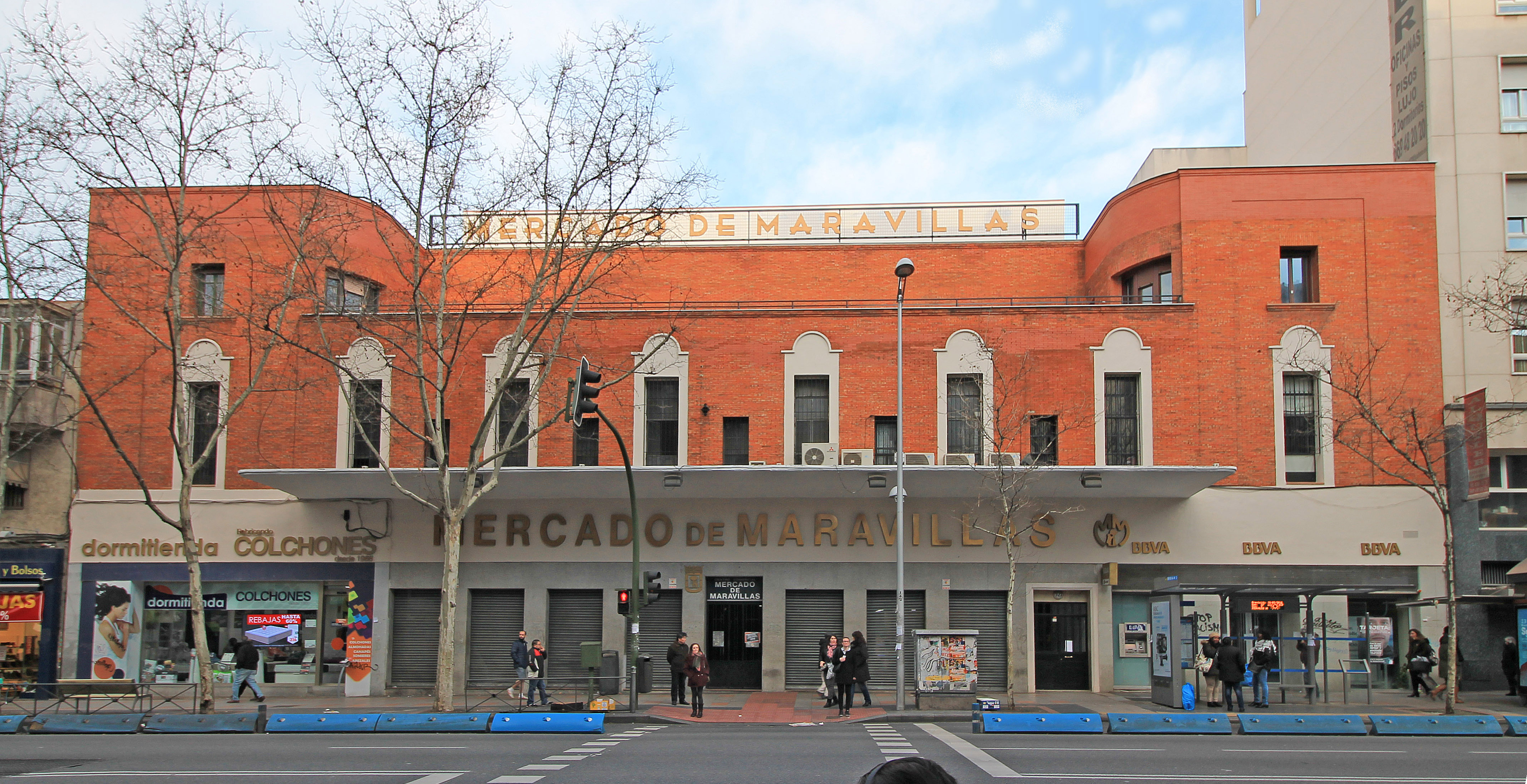 Façade of Mercado de Maravillas (a market) in Madrid (Spain).